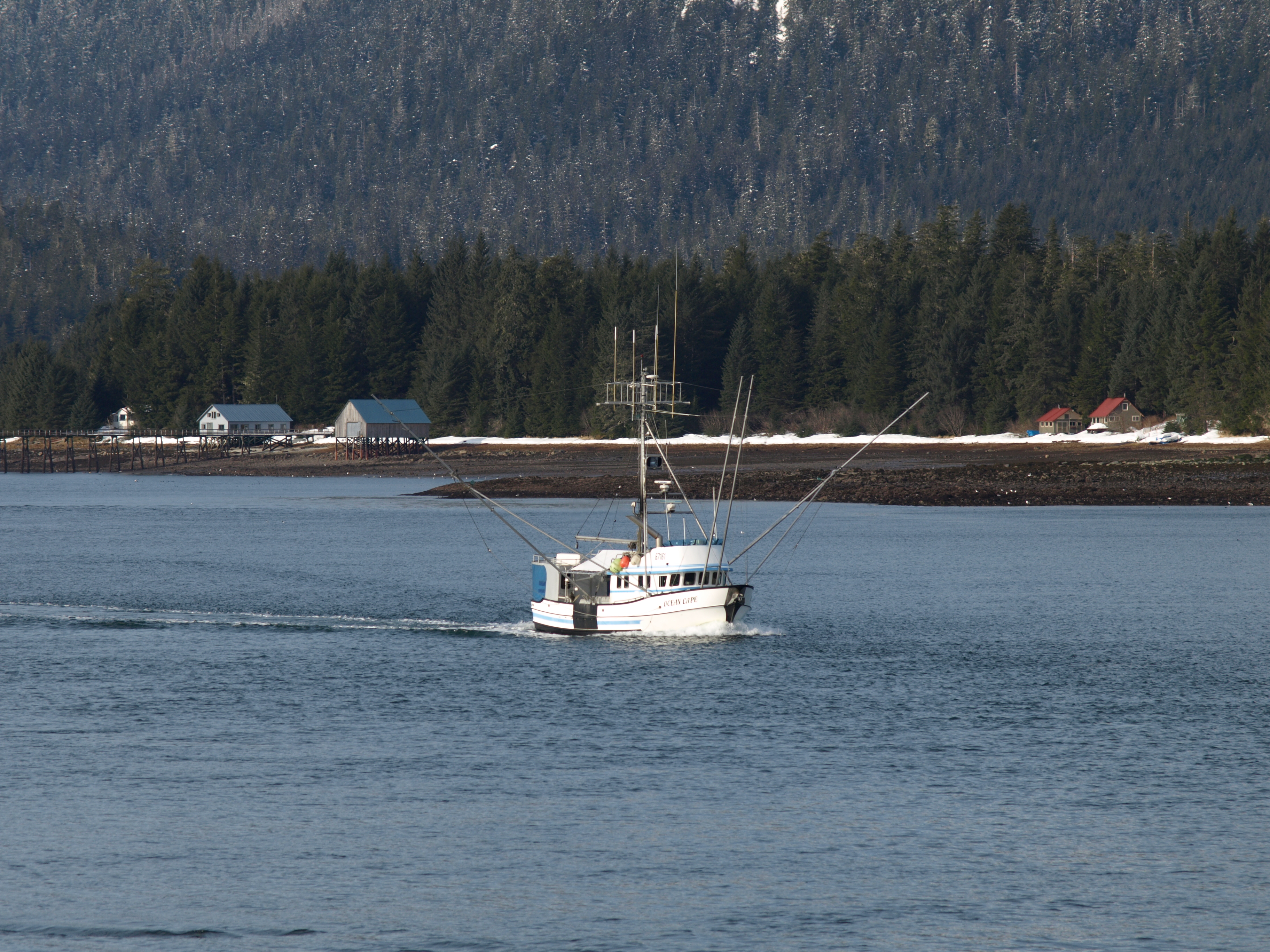 Ocean Cape heads out of Petersburg, Alaska.